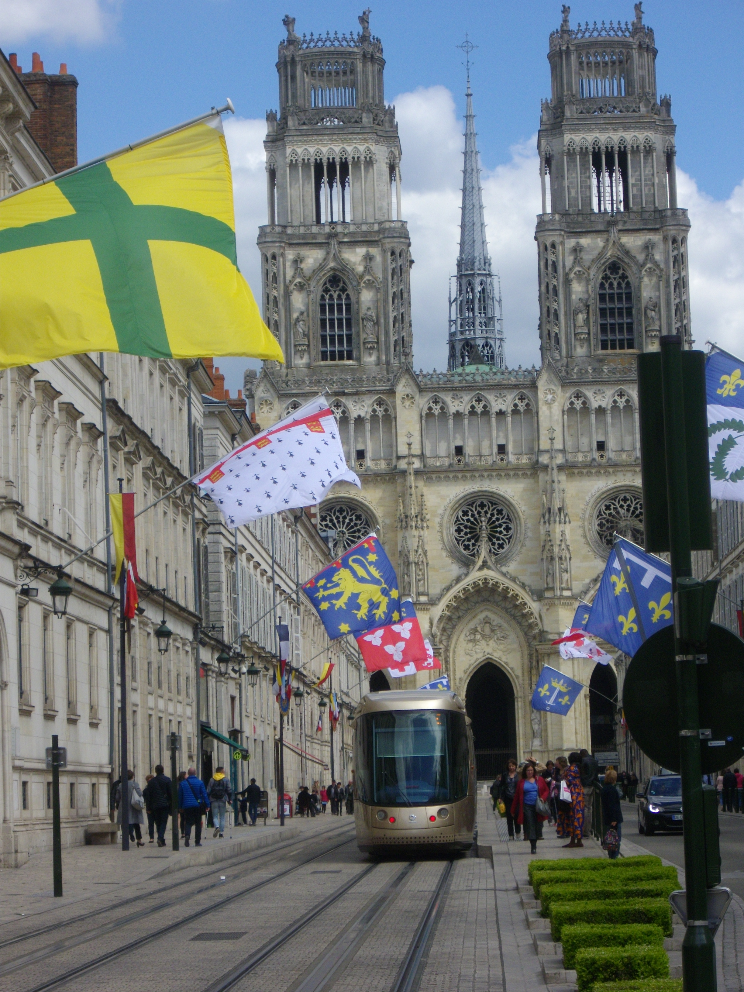 Holy Cross cathedrale of Orléans (Loiret, France) : western facade and tramway .